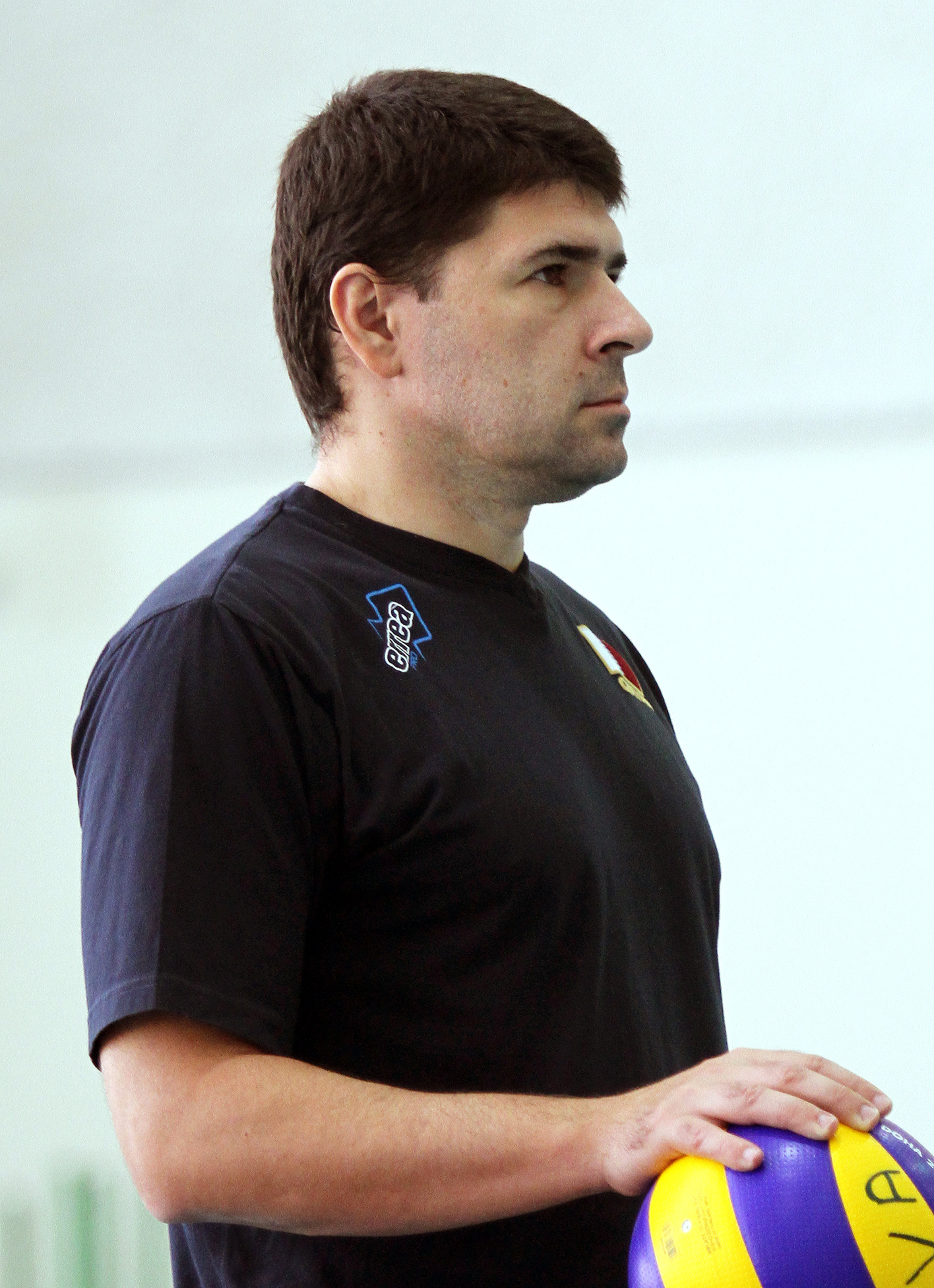 Qatar national volleyball team coach Igor Arbutina during his team's training session at the Al Arabi Indoor Hall. Picture by Vinod Divakaran